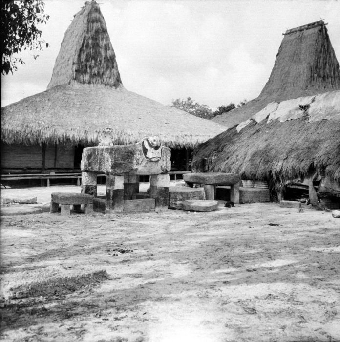 The grave of a raja, Rendeh